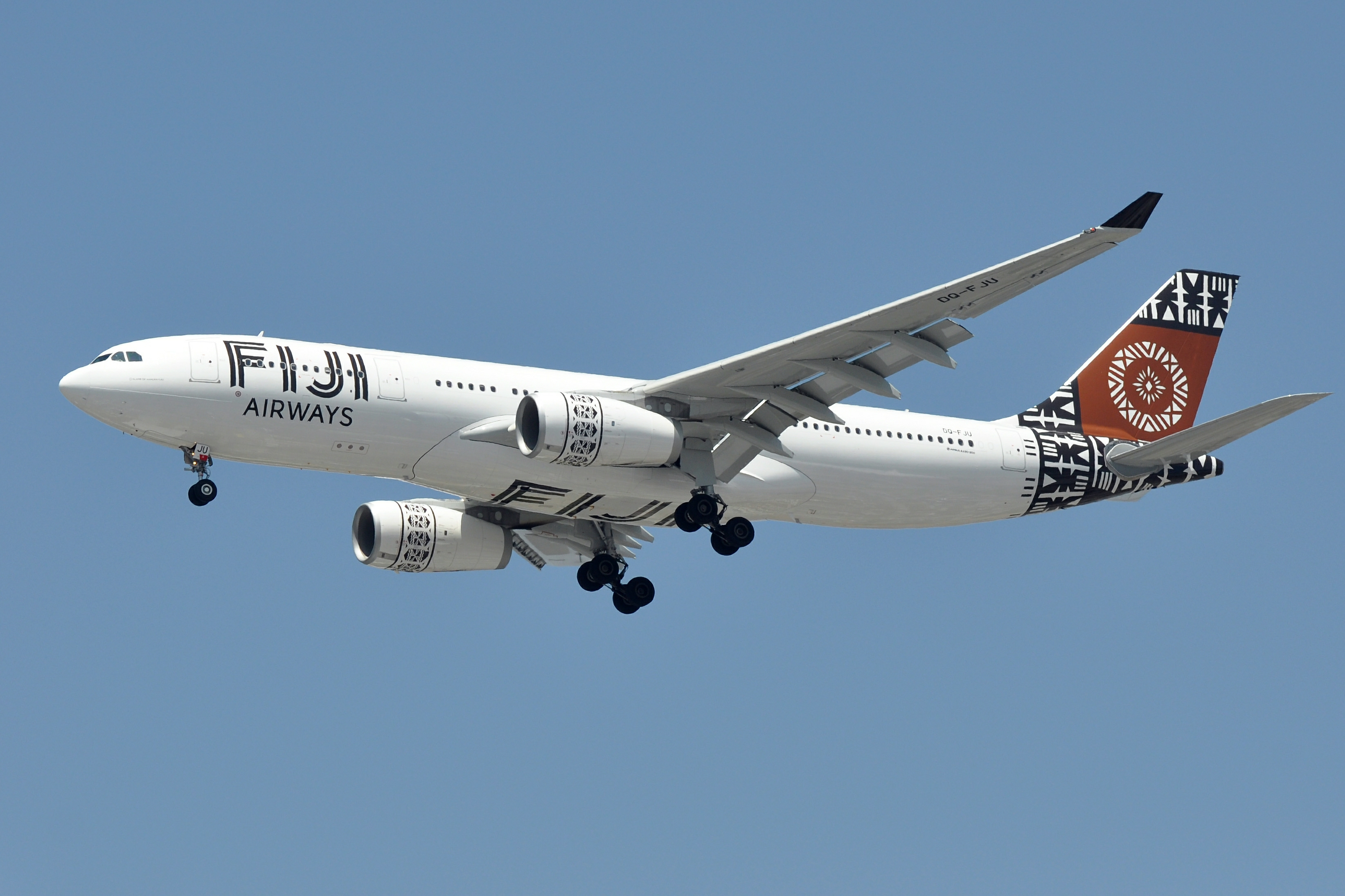 Airbus A330 of Fiji Airways landing at Los Angeles International Airport